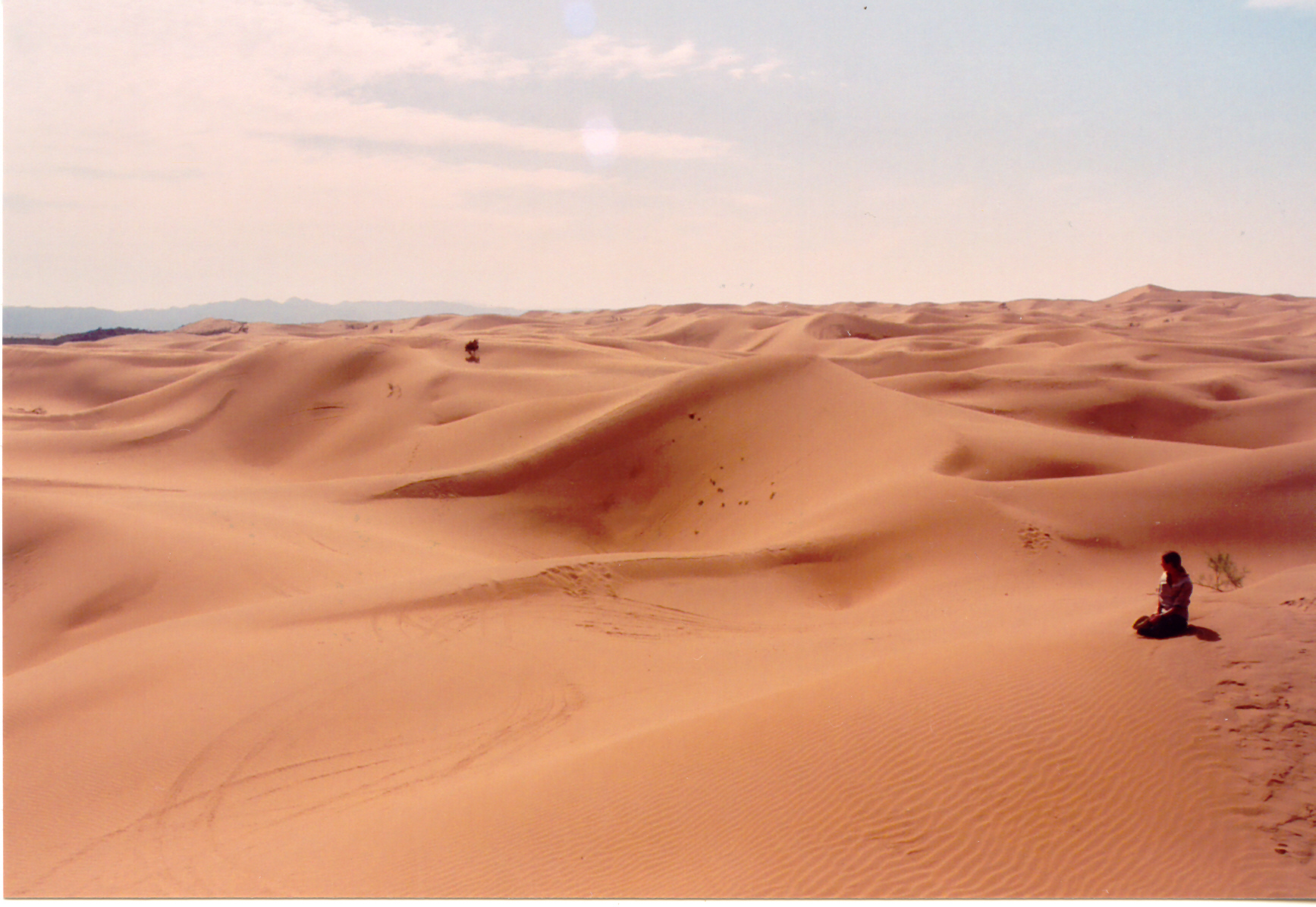 Image of Lianne McNaughton at the souther fringe of the Tengger Desert of China. Image by Cameron McNaughton